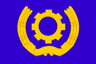 Flag of Biheira governadorate Imatge feta per J. Ollé